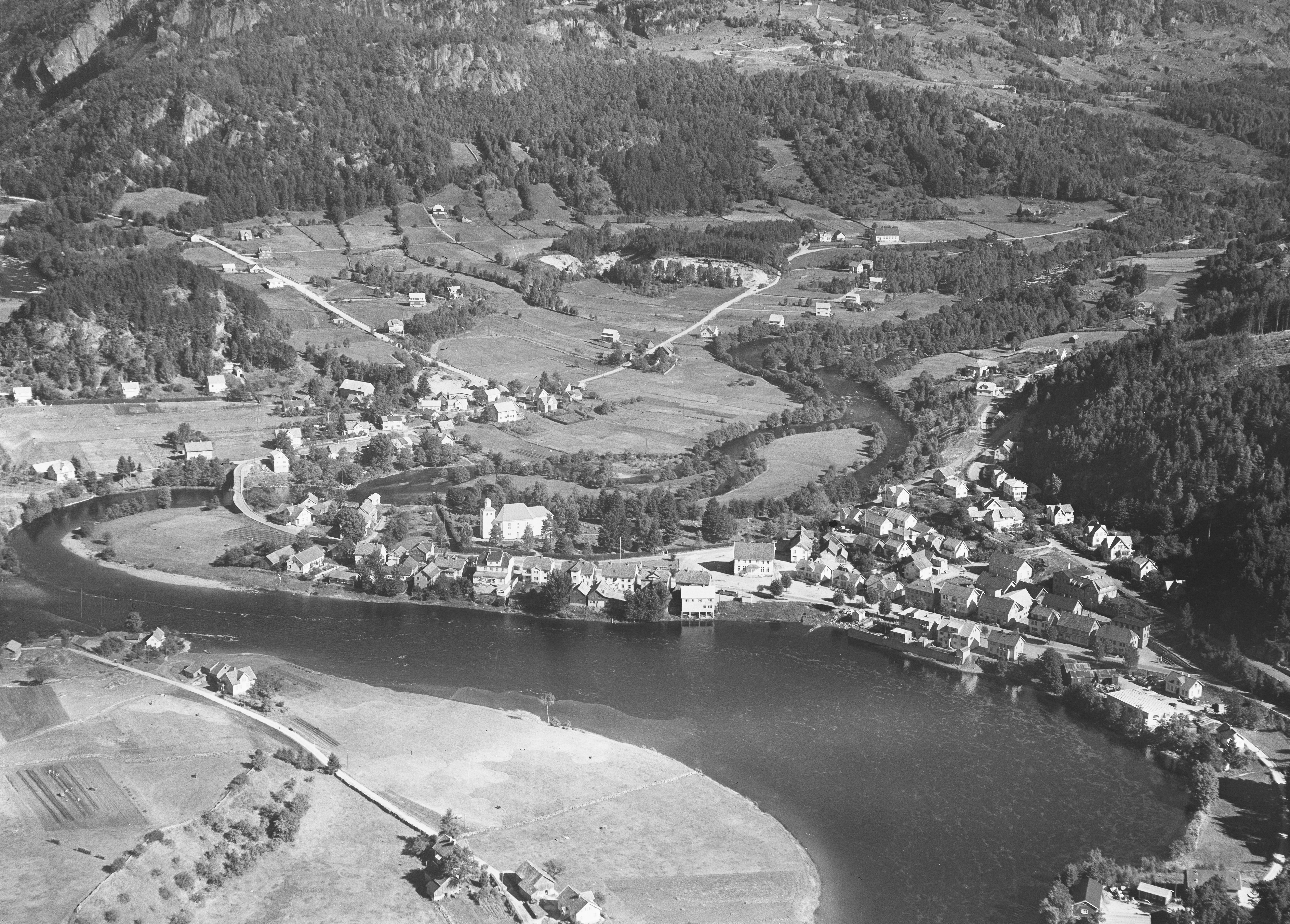 Liknes village in Kvinesdal, with Kvinesdal church, cropped for publishing on WP.